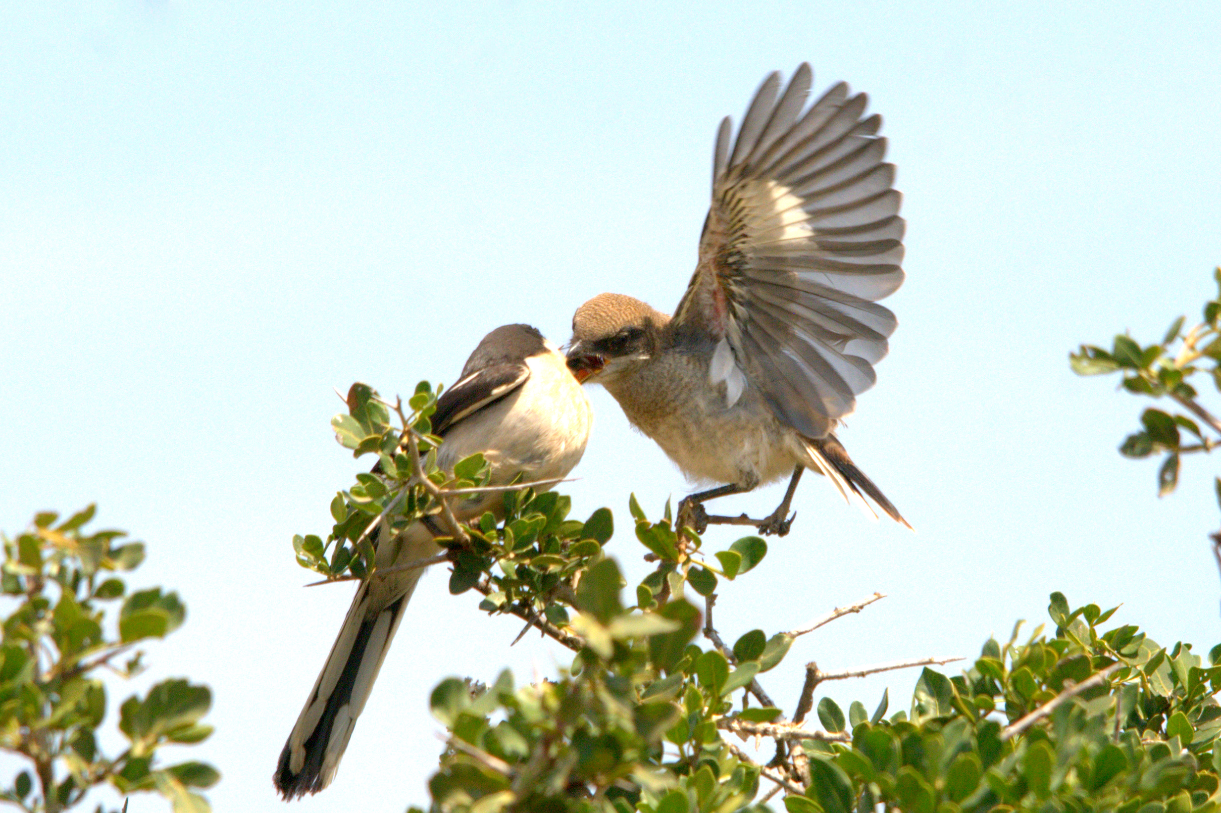 Common Fiscal feeding young